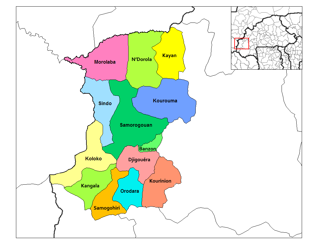 This map has been uploaded by Osiris fancy from to enable the Wikimedia Atlas of the World. Original uploader to was Rarelibra. Osiris fancy is not the creator of this map. Licensing information is below. Map of the departments of Kenedougou province in Burkina Faso. Created by Rarelibra 03:22, 30 September 2006 (UTC) for public domain use, using MapInfo Professional v8.5 and various mapping resources.